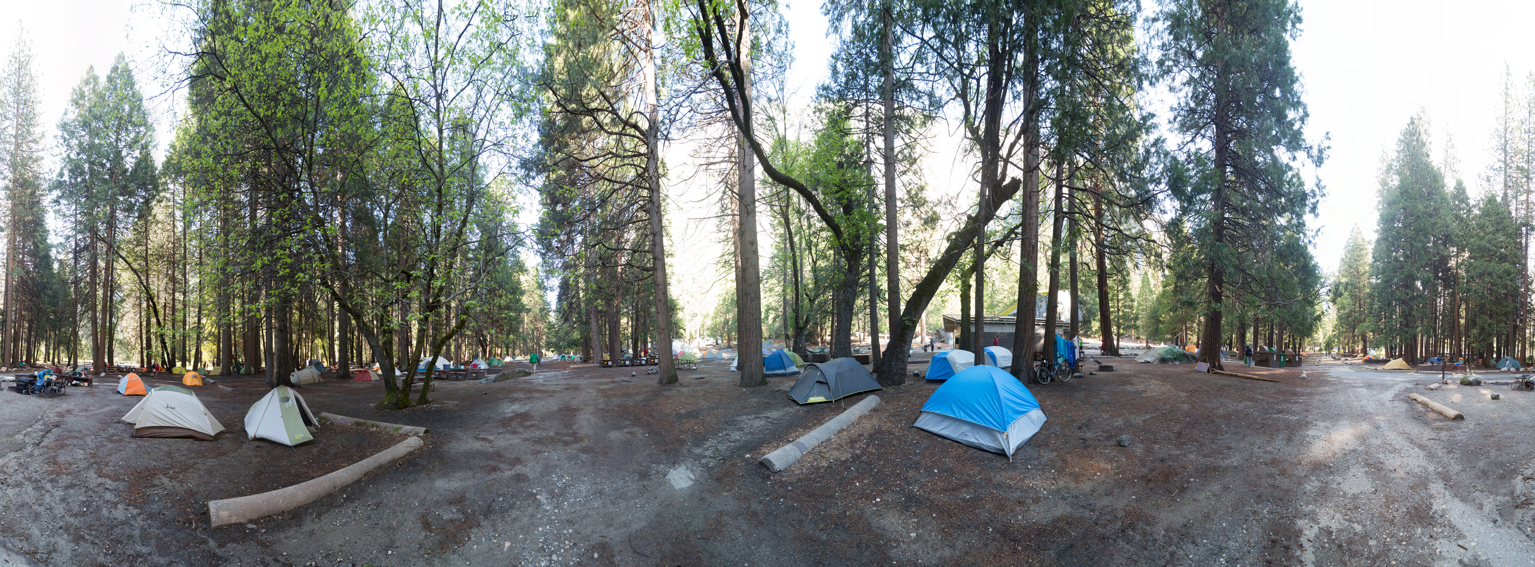 A 360 degree view of Camp 4 in Yosemite National Park, as viewed from the main walkway through the campground.